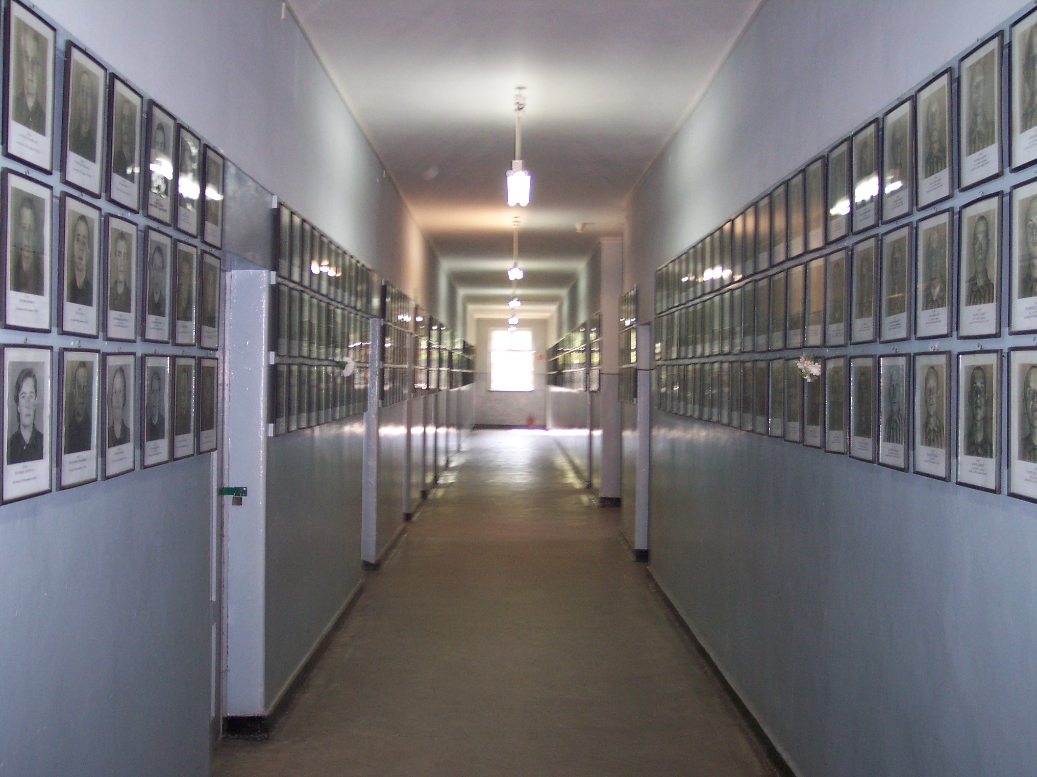 Auschwitz I Block 11